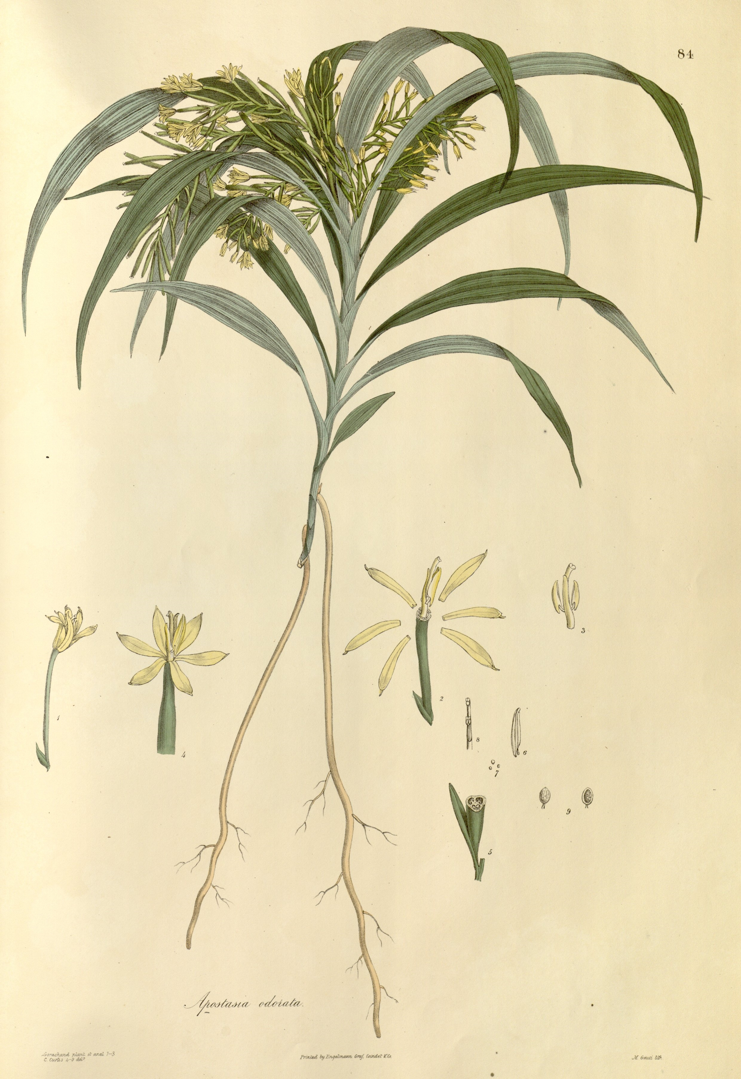 Illustration of Apostasia wallichii